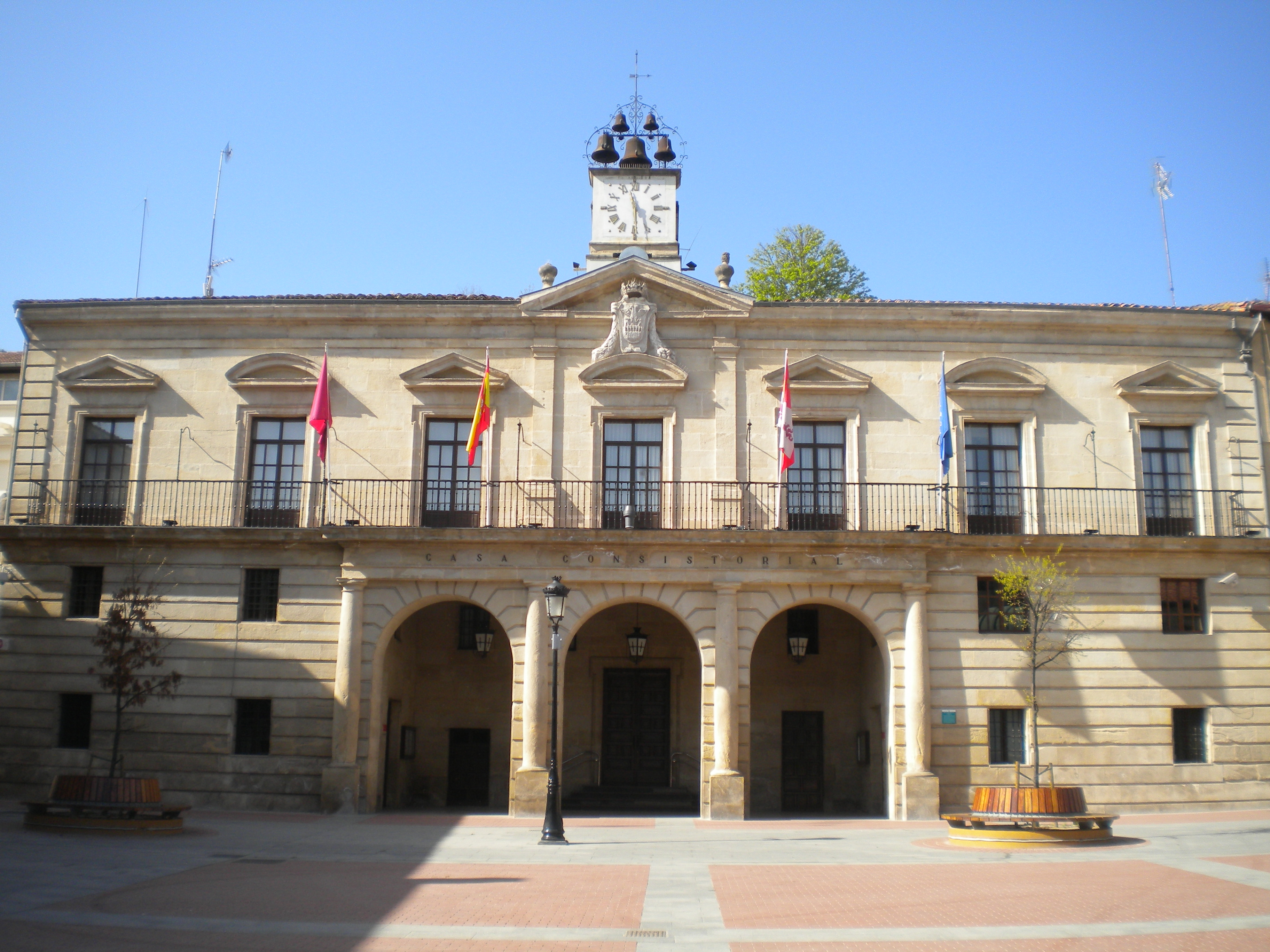 Town Hall of Miranda de Ebro (Castile and León, Spain)